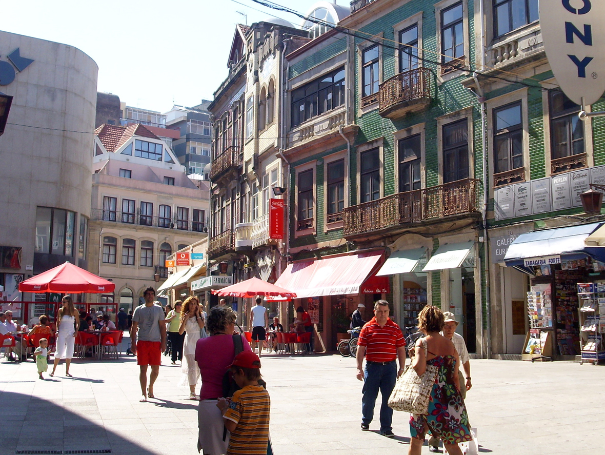 David Alves Square in Póvoa de Varzim. Historic square related with 19th century gambling and Portuguese culture.